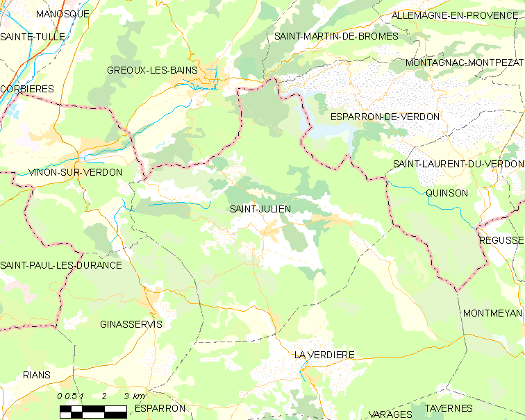 Map of French municipality Saint-Julien